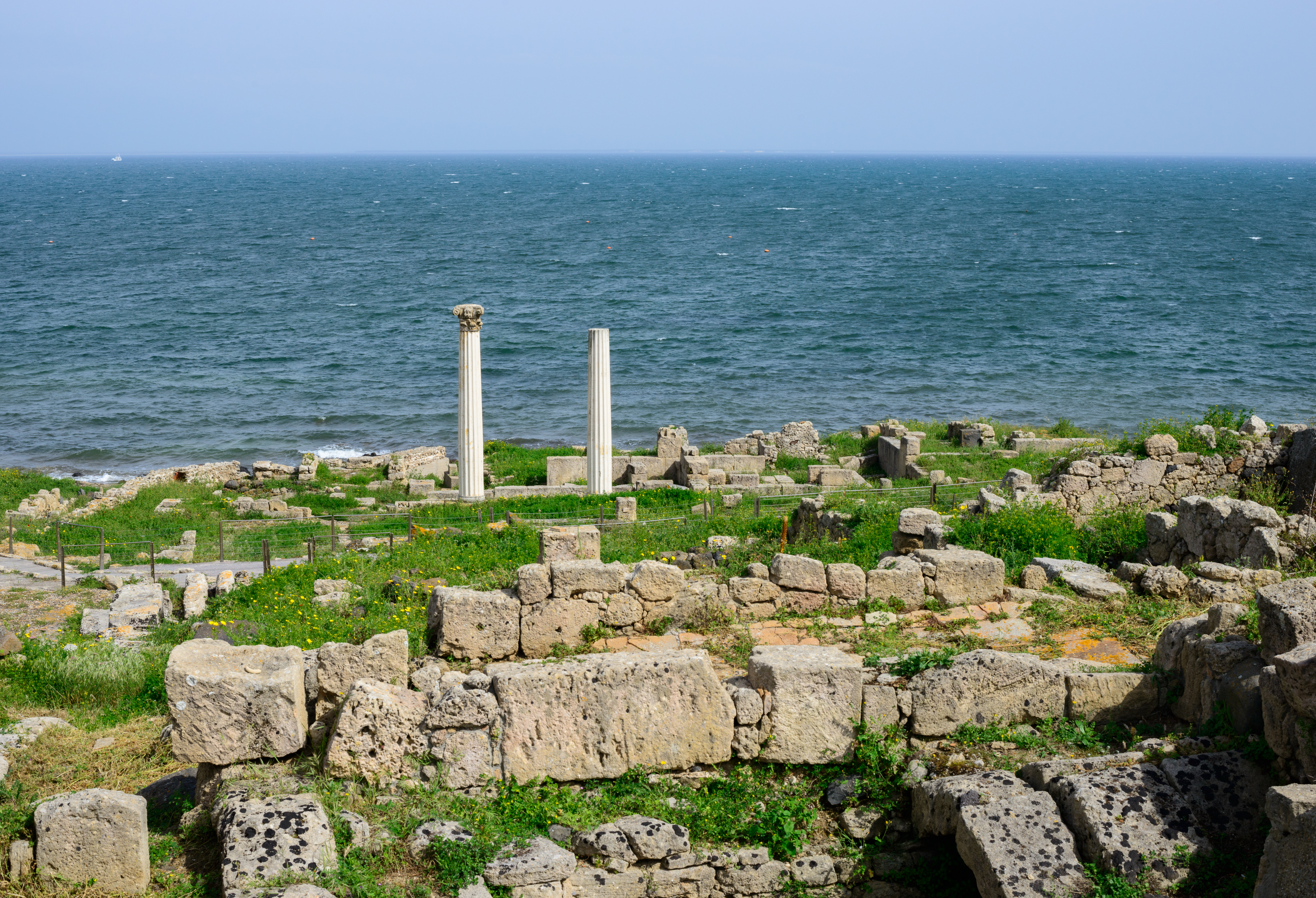 Tharros, ancient city ruins on the west coast, province of Oristano, Sardinia, Italy.